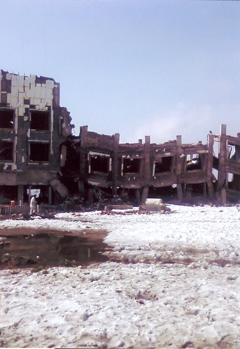 Ruins of PTDC Ski Resort (destroyed by Taliban) Malamjabba Swat, Pakistan